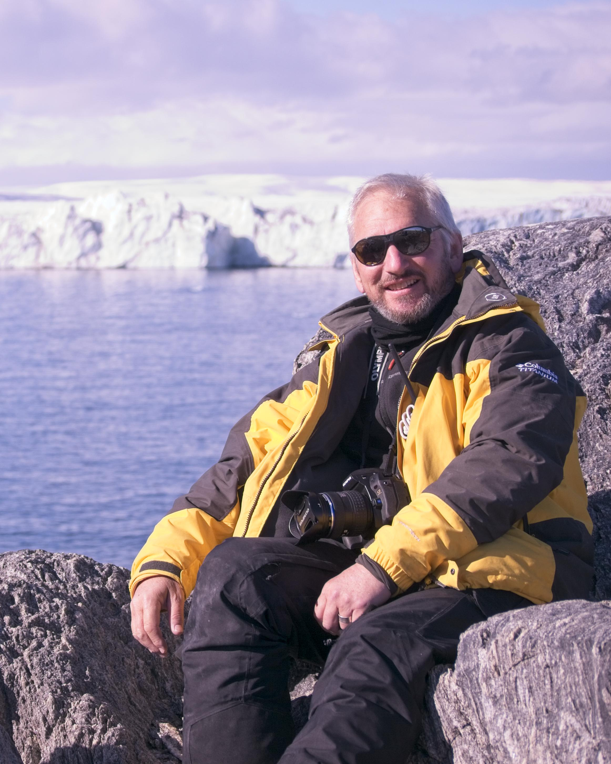 Lloyd Spencer Davis at Terra Nova Bay, Antarctica (credit: W. Finkler)